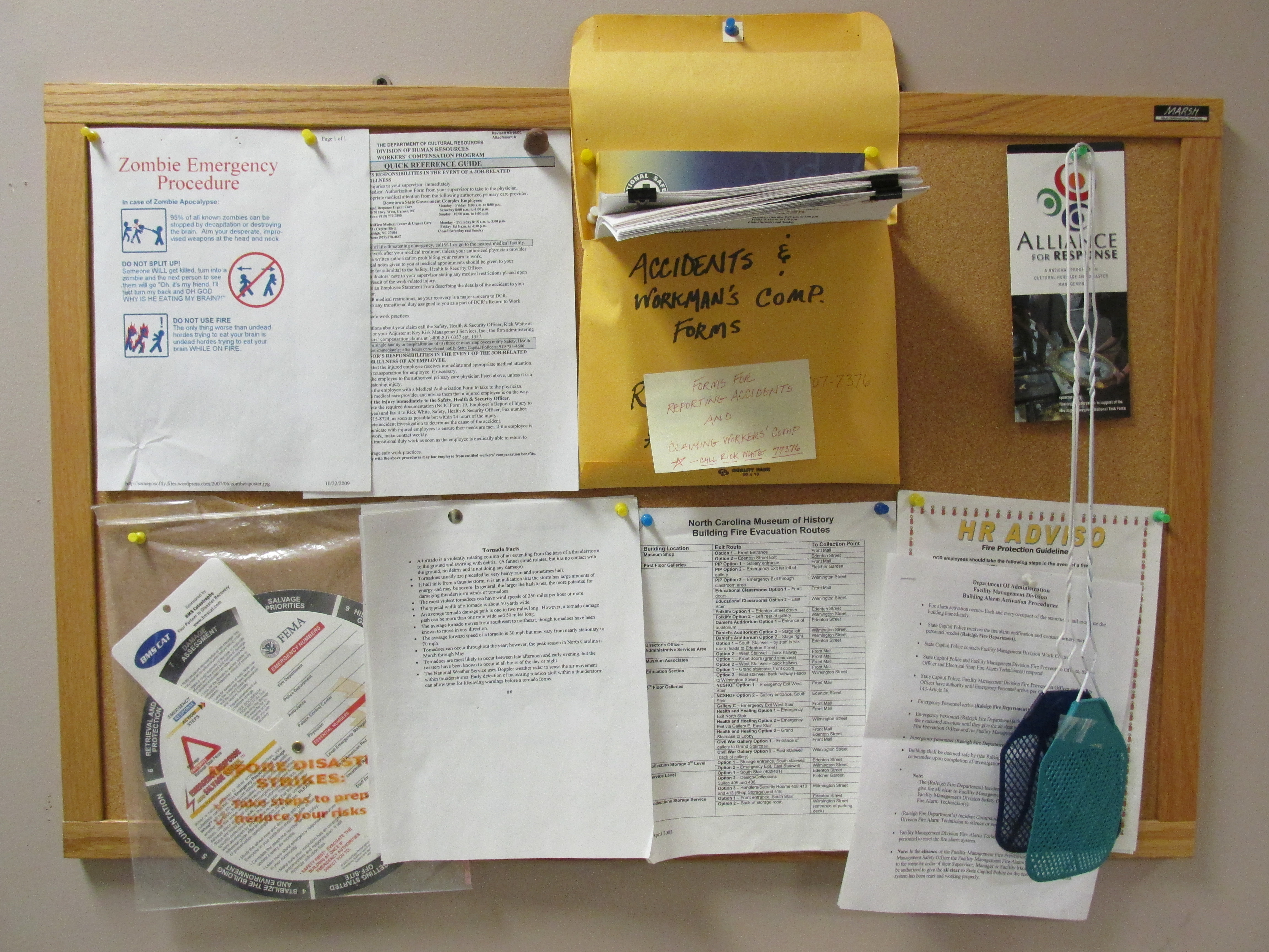 Each museum department could keep a cork board with current emergency plans, procedures, and materials.